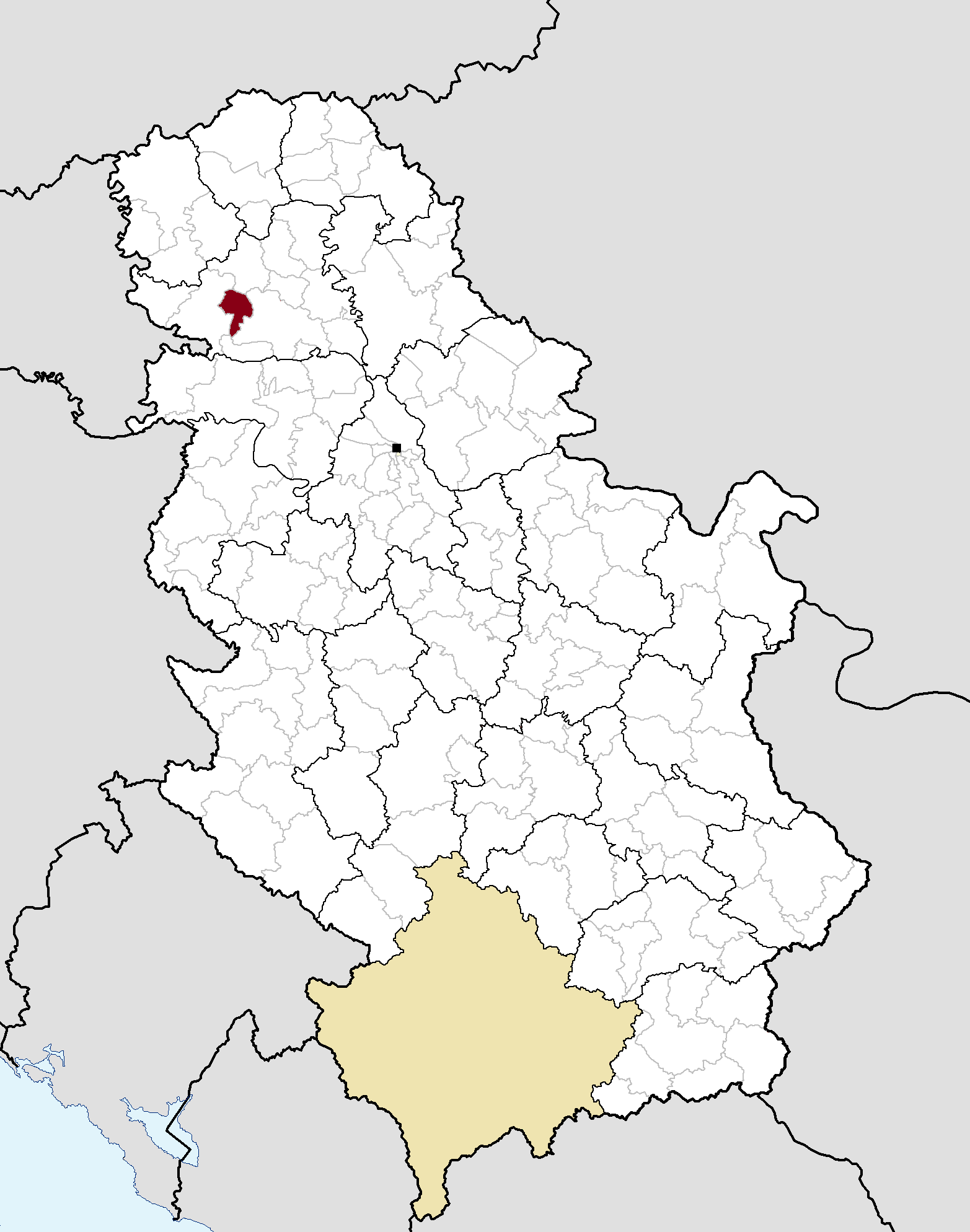 Municipal location in Serbia